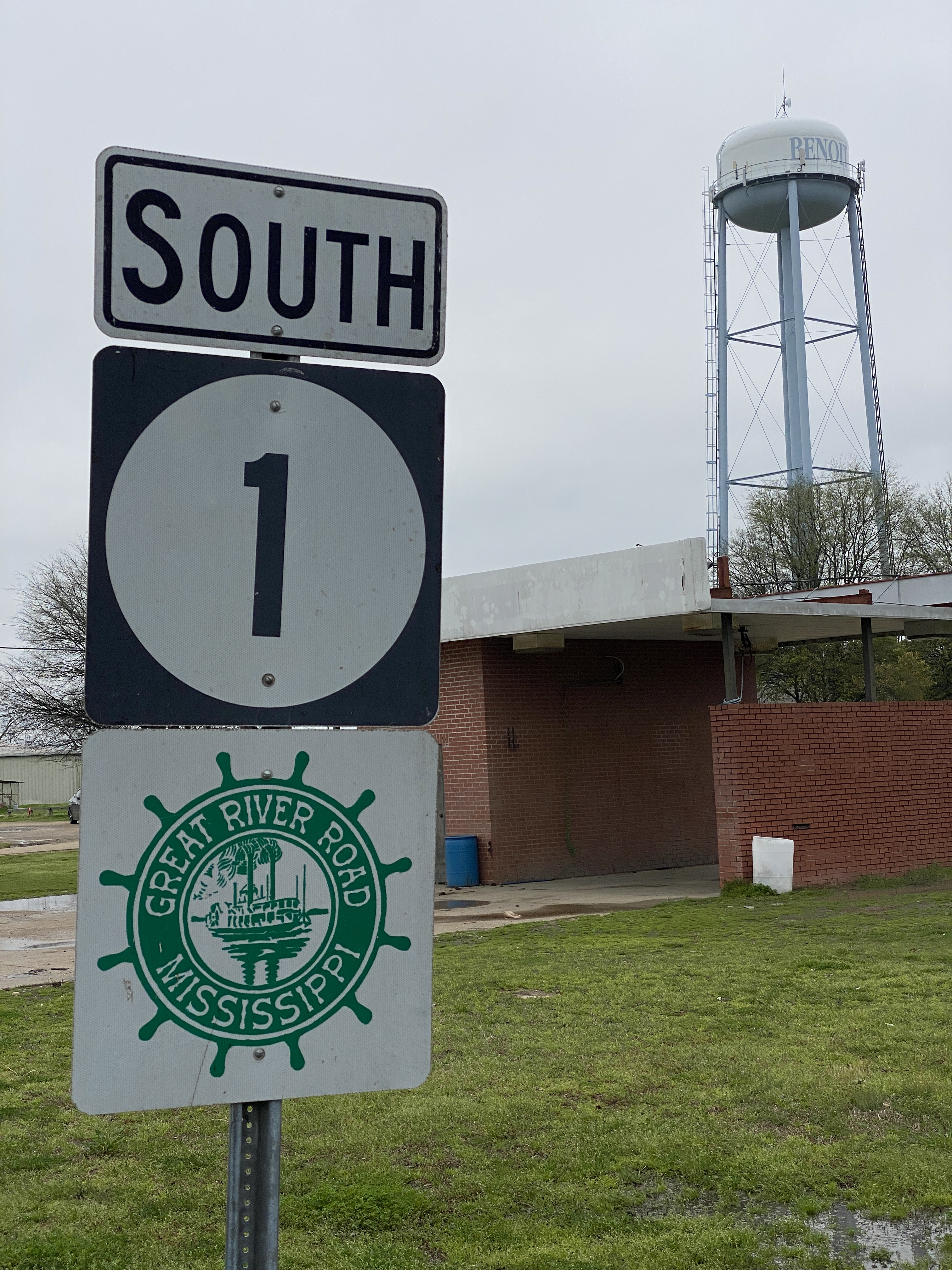 Benoit water tower in background, Mississippi highway 1 sign in foreground